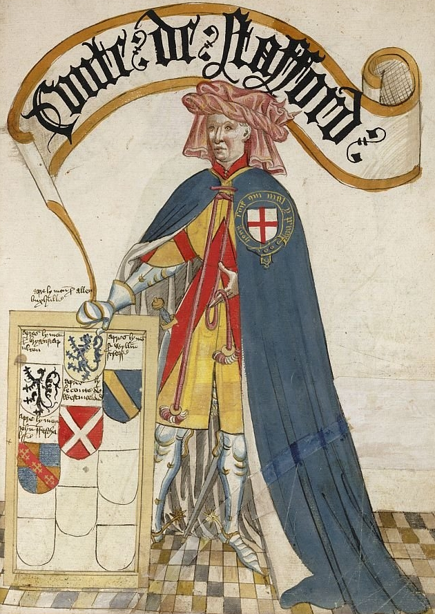 Full page miniatures of Ralph, Lord Stafford, of the Order of the Garter, wearing a blue Garter mantle over plate armour and surcoat displaying his arms. A framed tablet displays painted arms of successors in his Garter stall at St. George's Chapel, Windsor.